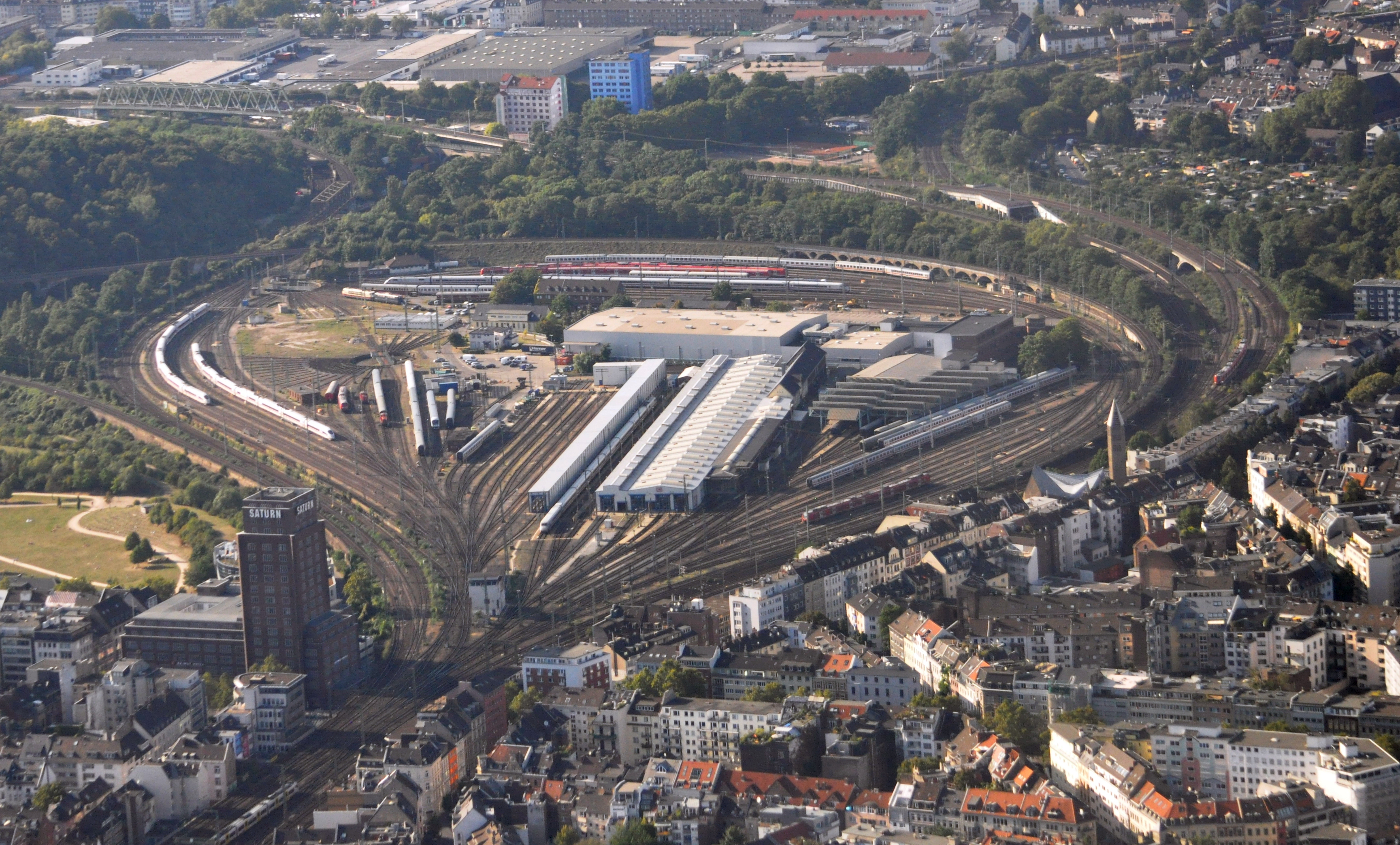 Betriebsbahnhof Köln (NRW), Blick nach Westen